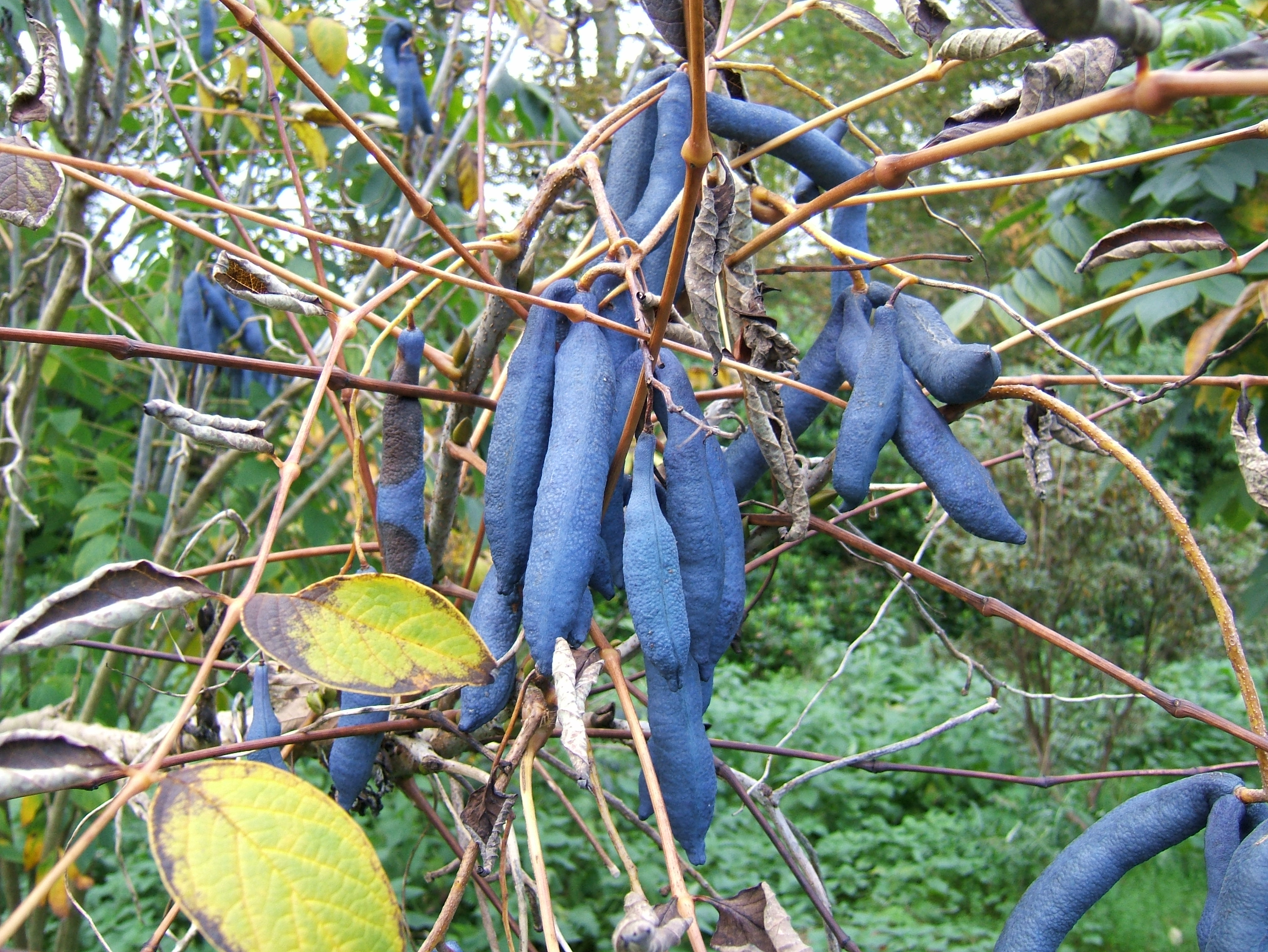 Decaisnea insignis (syn. D. fargesii) with mature fruit. Cultivated, Northumberland, UK.